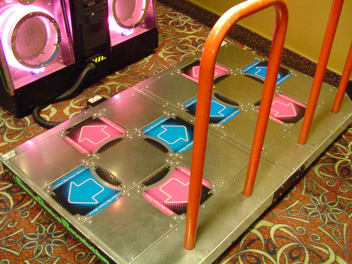 This is a DDR 4th Mix Plus machine, located inside Pacific Theaters, at 2000 Wible Road, Bakersfield, California. The photo was taken on January 28th, 2005, by Poiuyt Man. The image has been digitally altered to remove unsightly dirt from the pad.